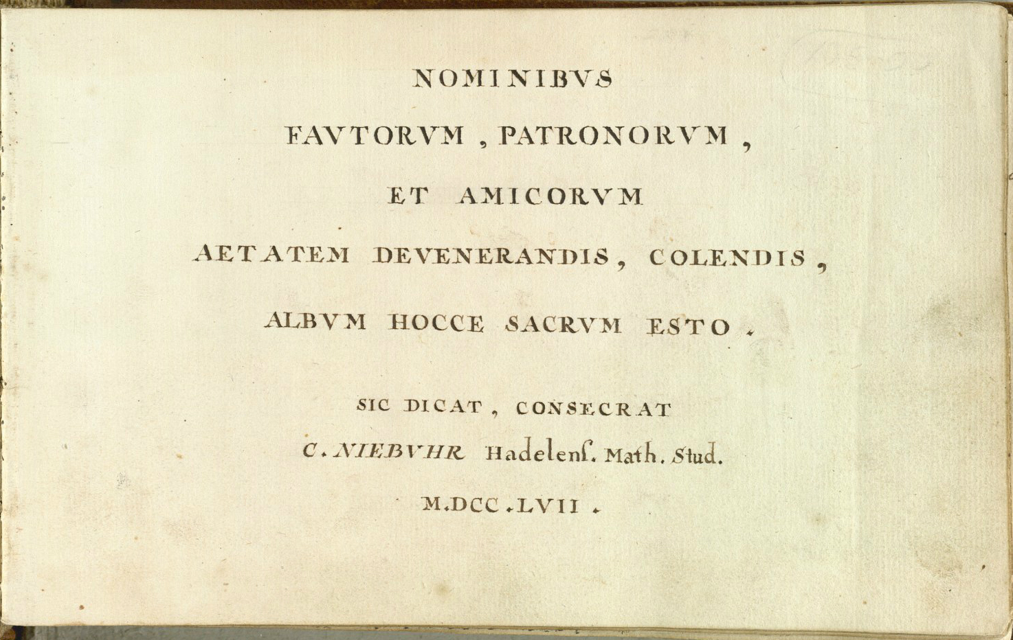 Album Amicorum